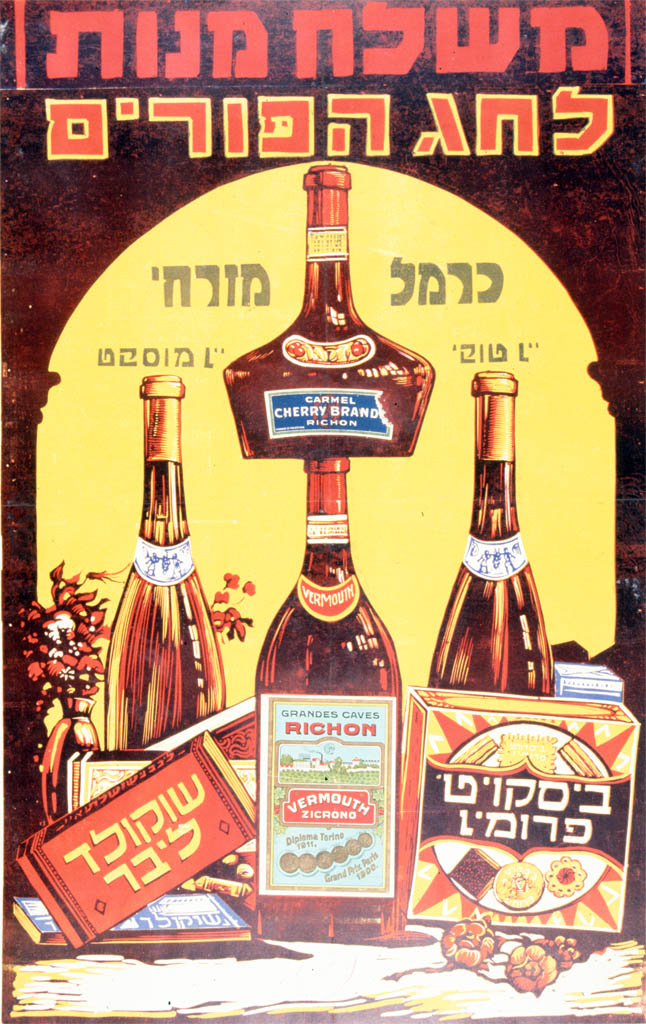 Description: Mishloah Manot! Artist: Ha Solel Date: April 1933 Medium: color lithograph Persistent URL: Repository: Yeshiva University Museum Accession number: 1998.654 Rights Information: No known copyright restrictions; may be subject to third party rights. For more copyright information, click here. See more information about this image and others at CJH Museum Collections.